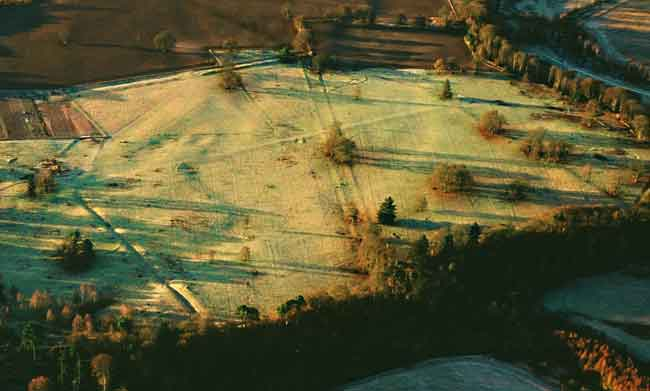 aerial photo of the lands, with the archeological site clearly distinguishable